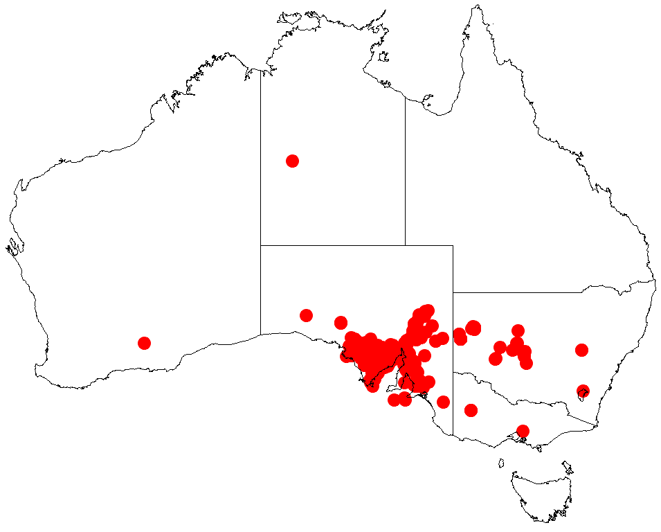 Acacia continua occurrence data from Australasian Virtual Herbarium downloaded from on December 8 2018